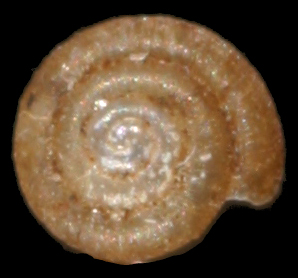 Photo of a shell of Punctum pygmaeum. Locality: Germany: Bayern, W Allgäu between Trögern and Weiler. Date: November 1963.